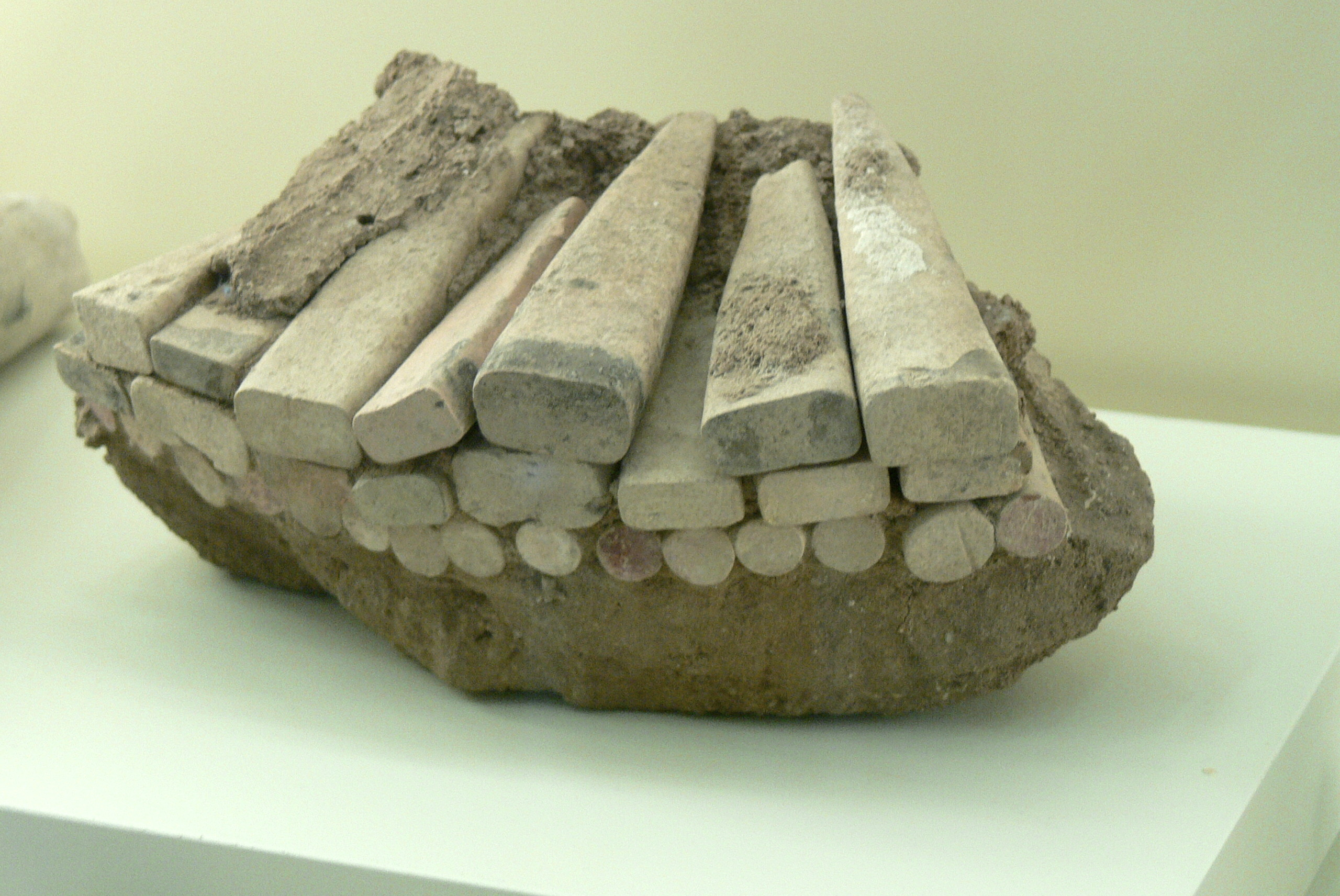 Museum of Ancient Near East ( Berlin ). Stone cone mosaic from Habuba Kabira ( 4th millenium BC ).